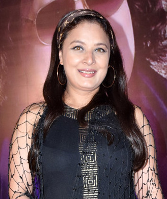 Sarbani Mukherjee in 2018